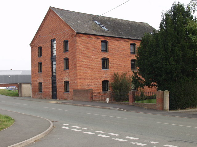 The old Four Crosses Creamery building The wonderful brick built old creamery building has been converted into flats.